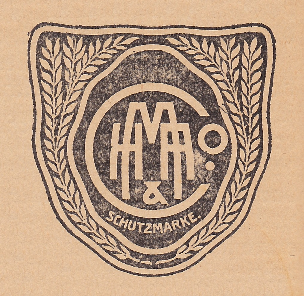 Logo of the Hamburg, Germany,-based company H. A. Mayer & Co. which was founded in 1907. This company produced and distributed herbal medicaments and tinctures, nutriments, dietary supplements as well as further cosmetic and pharmaceutic items.